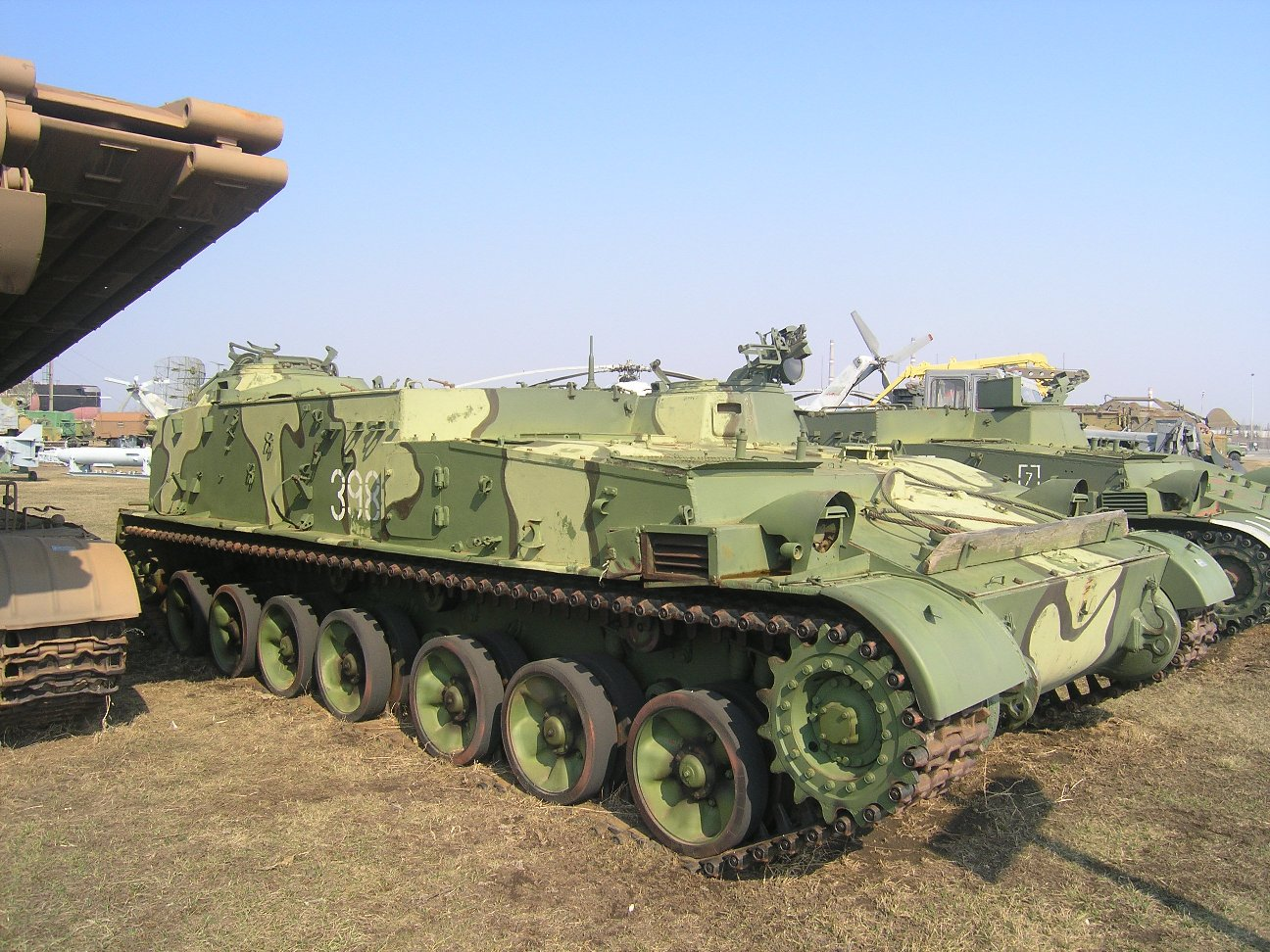 GMZ-2 tracked minelayer in Togliatti Technical museum